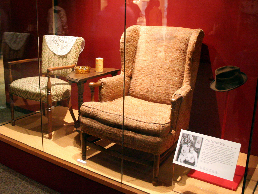 All in the Family props on display at the National Museum of American History